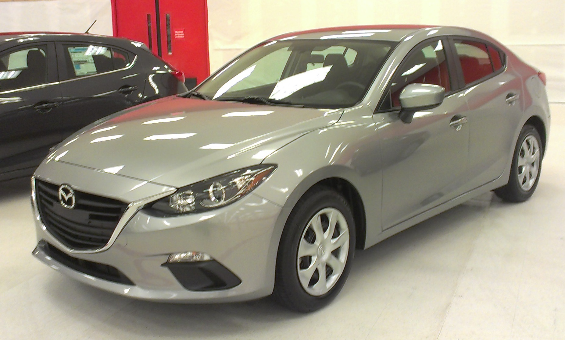 2016 Mazda3 photographed in Montreal, Quebec, Canada at a Carrefour Angrignon car show located from where Target/Zellers was.